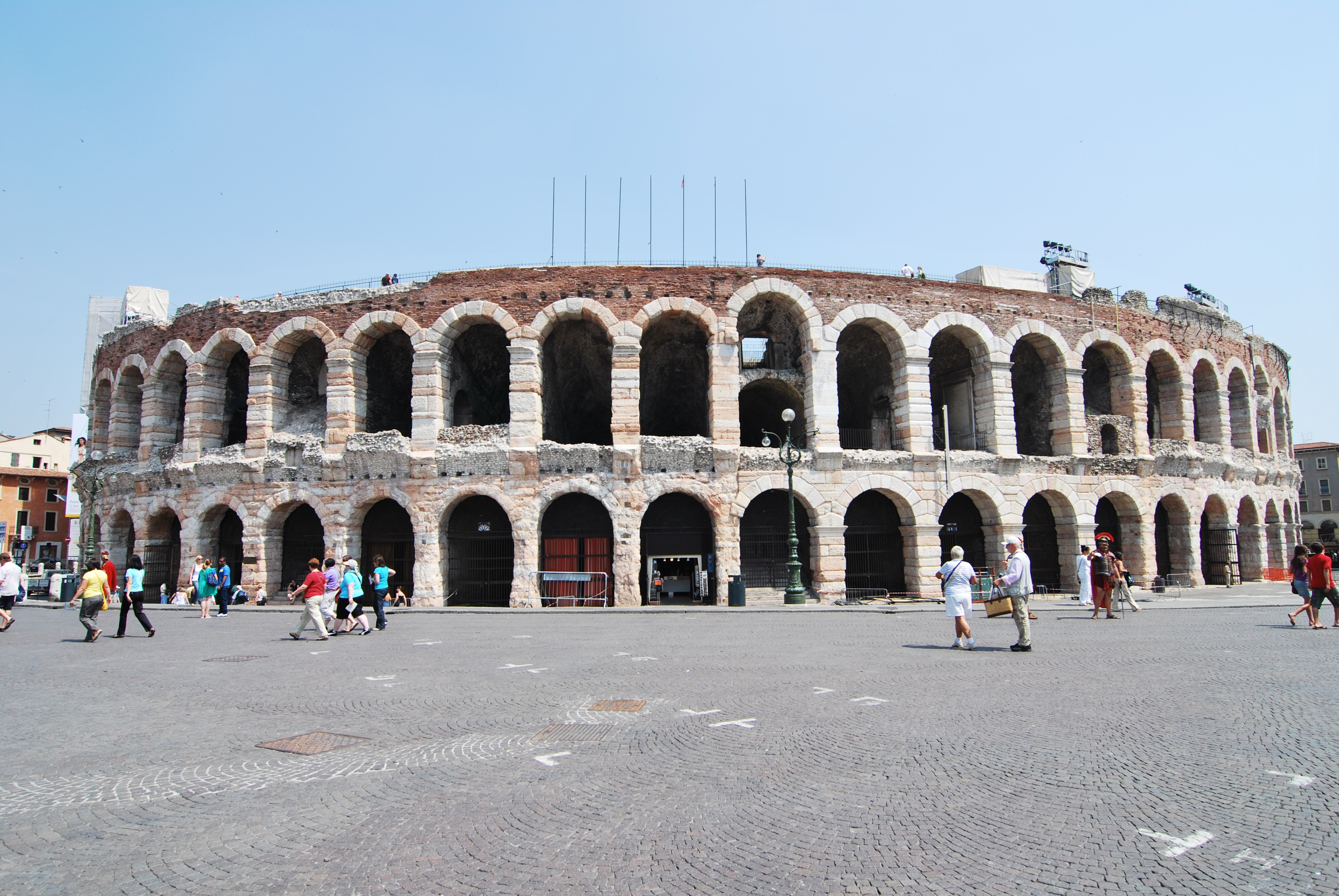 verona arena italy 2009